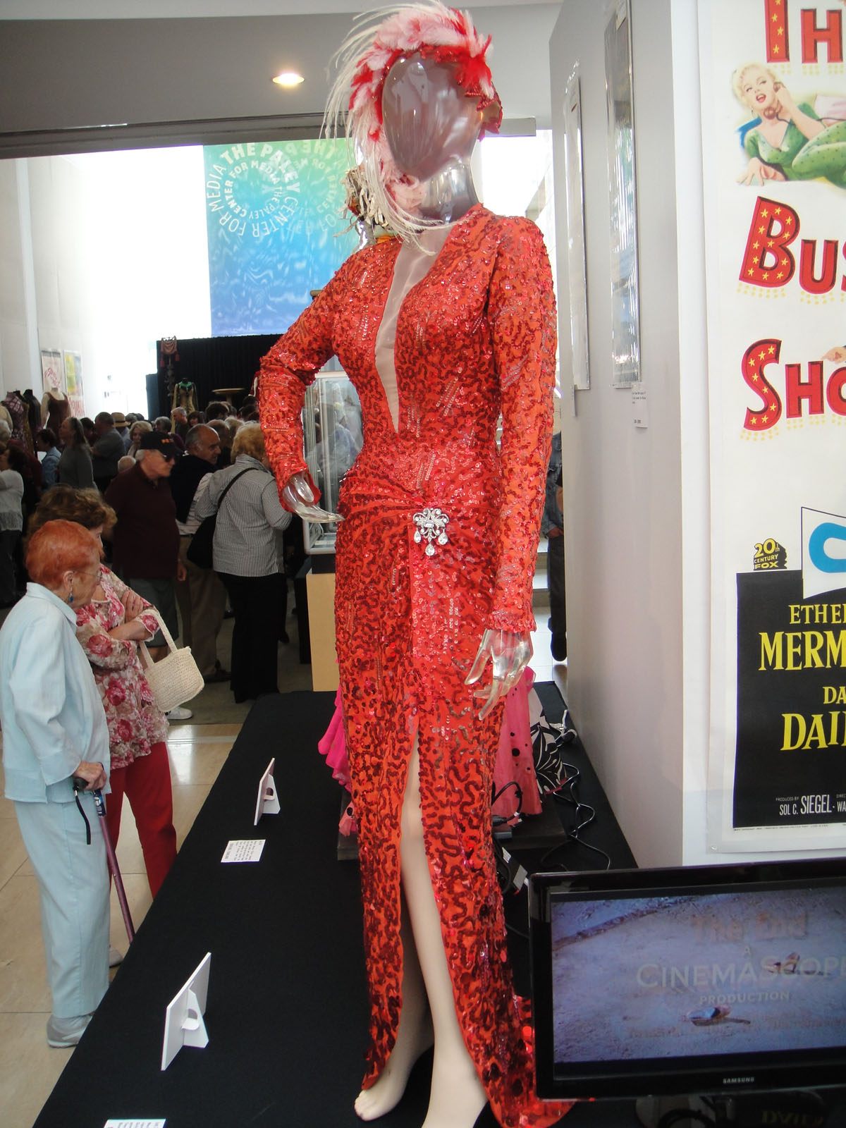 Marilyn Monroe "Lorelei Lee" red-sequined "Two Little Girls from Little Rock" showgirl gown with feathered hat from "Gentlemen Prefer Blondes" while on the background there is "There's No Business Like Show Business" poster at the Debbie Reynolds Auction Breaks Up Historic Hollywood Collection (The Paley Center for Media in Beverly Hills, Los Angeles, CA, USA).